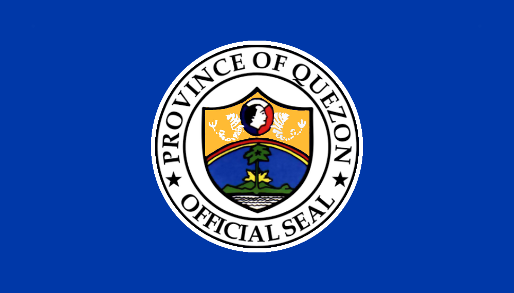 Provincial Flag of Quezon